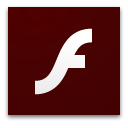 Adobe Flash Player 11 icon.This version looking same like just v8 icon but slightly updated.